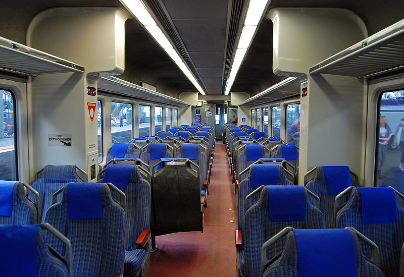 Interior photo of V/Line (Goninan) Sprinter railmotor 7004 pre-refurbishment at Southern Cross Station. 5 November 2007.